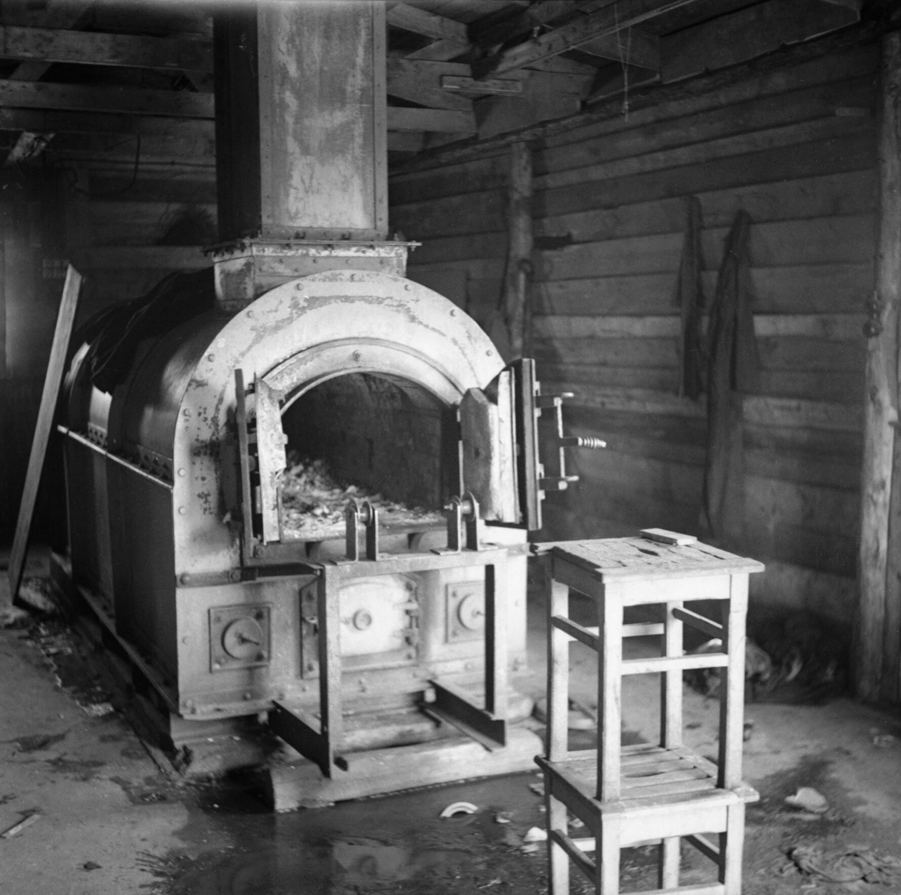 The Liberation of Bergen-belsen Concentration Camp, April 1945 The camp crematorium furnace, used by the Germans to incinerate dead bodies.